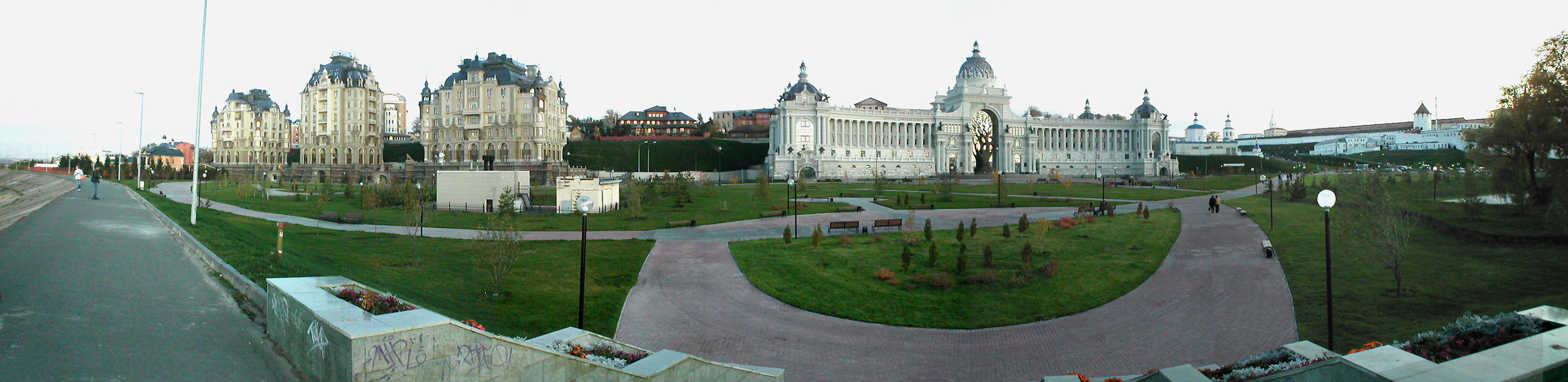 Palace square in Kazan